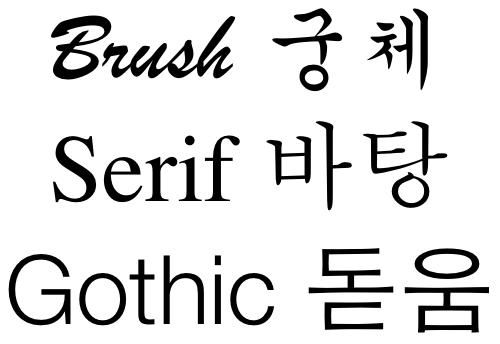 Three styles of Korean lettering.